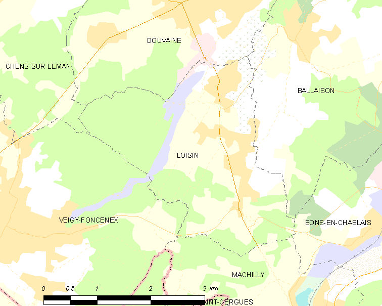 Map of French municipality Loisin